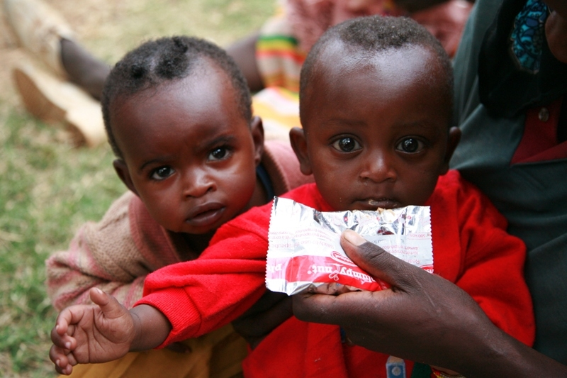 USAID provides therapeutic and supplementary foods, such as Plumpy’nut to reduce and treat malnutrition among children. (Kimberly Flowers/USAID)